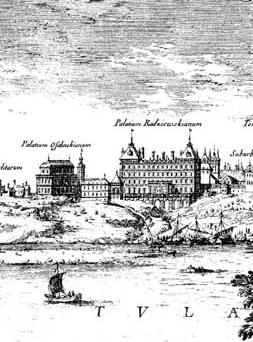 Ossoliński Palace (later Brühl Palace, left) and Kazanowski Palace (right). Detail of a view of Warsaw from 1656. They were both plundered and burned down by Sweds and Germans of Brandenburg in 1650s.